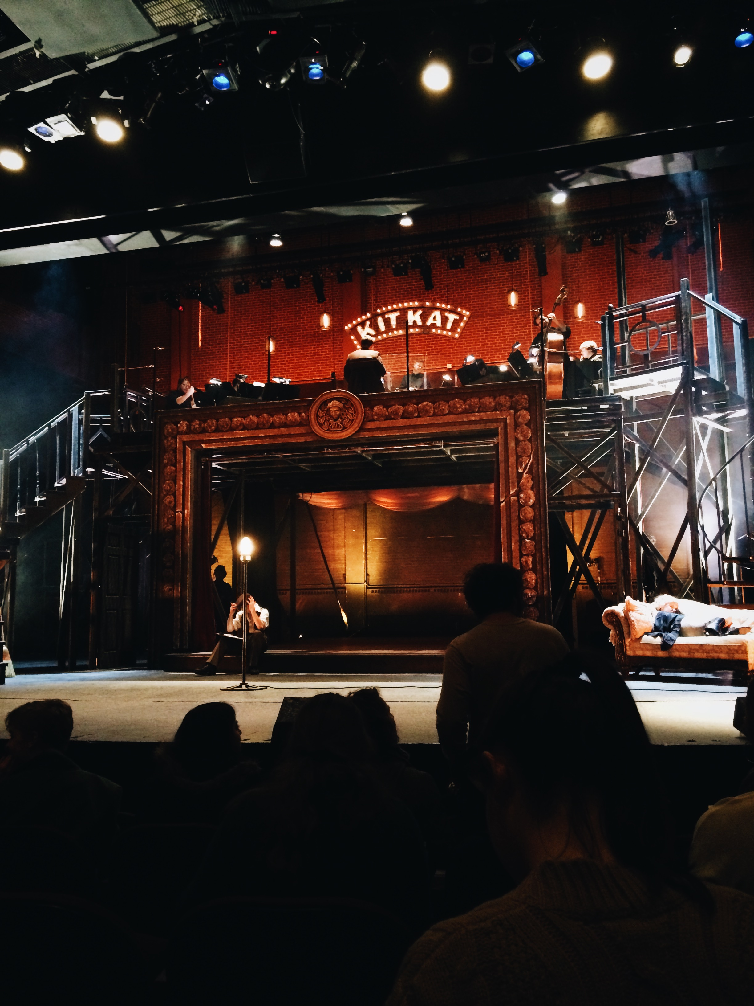 University of North Carolina's School of Theatre performing Cabaret